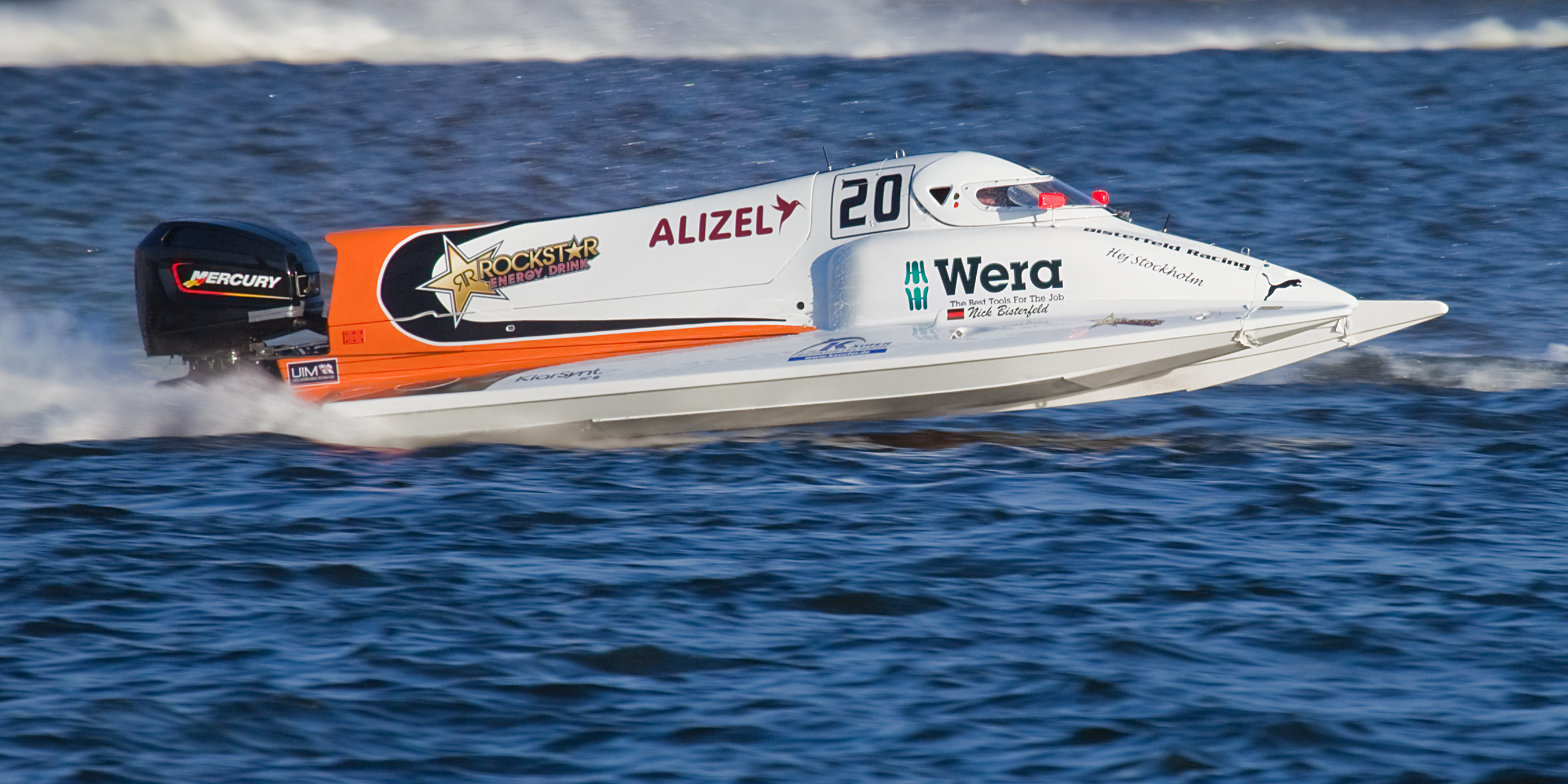 World and European F2 & F4 Championships at Riddarfjärden Stockholm June 2012